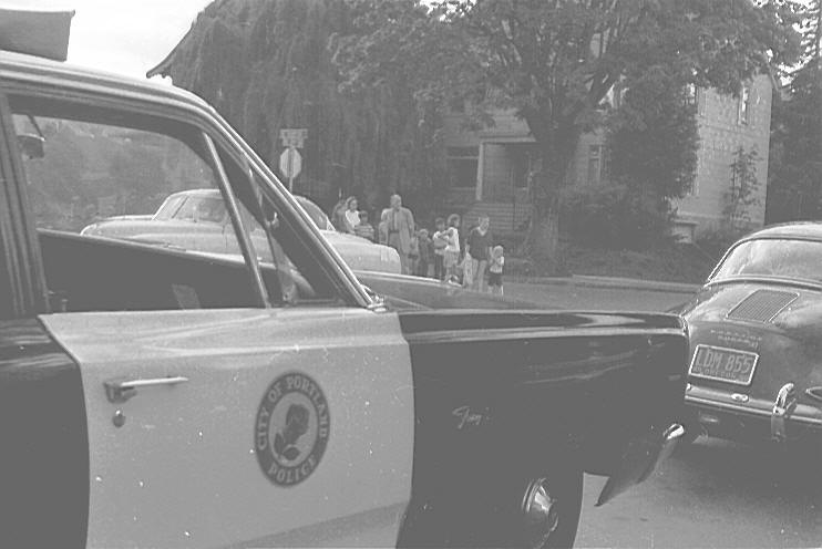 Photo by R. W. Rynerson. In June 1967, a minor injury traffic accident at NE 21st & Thompson in Portland, Oregon. Police react with siren and flashing lights and a crowd gathers. This was the typical type of police patrol work after the introduction of radio dispatching.